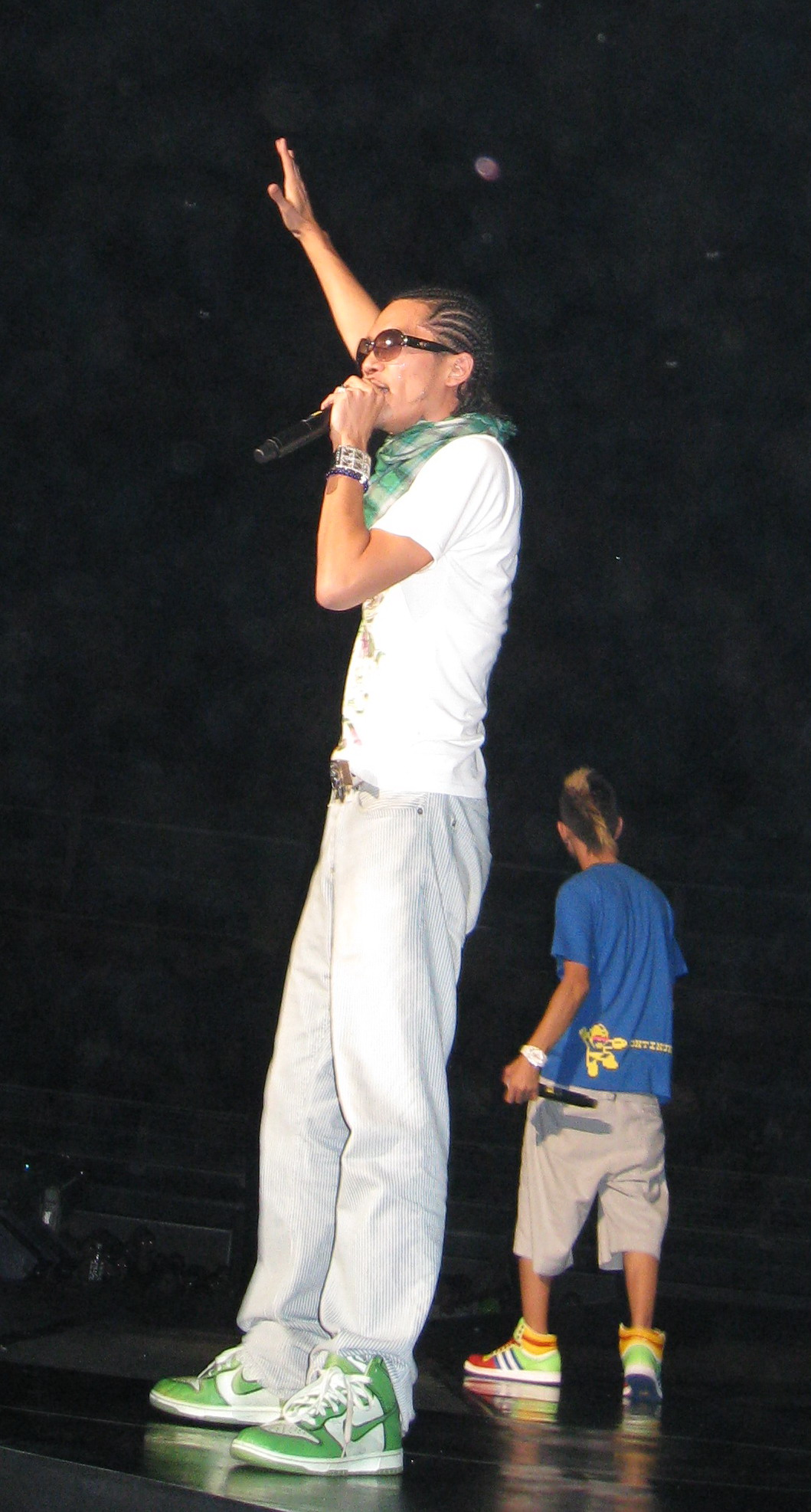 Zeebra at Asian Hip Hop Festival ,Impact arena ,Bangkok ,Thailand.